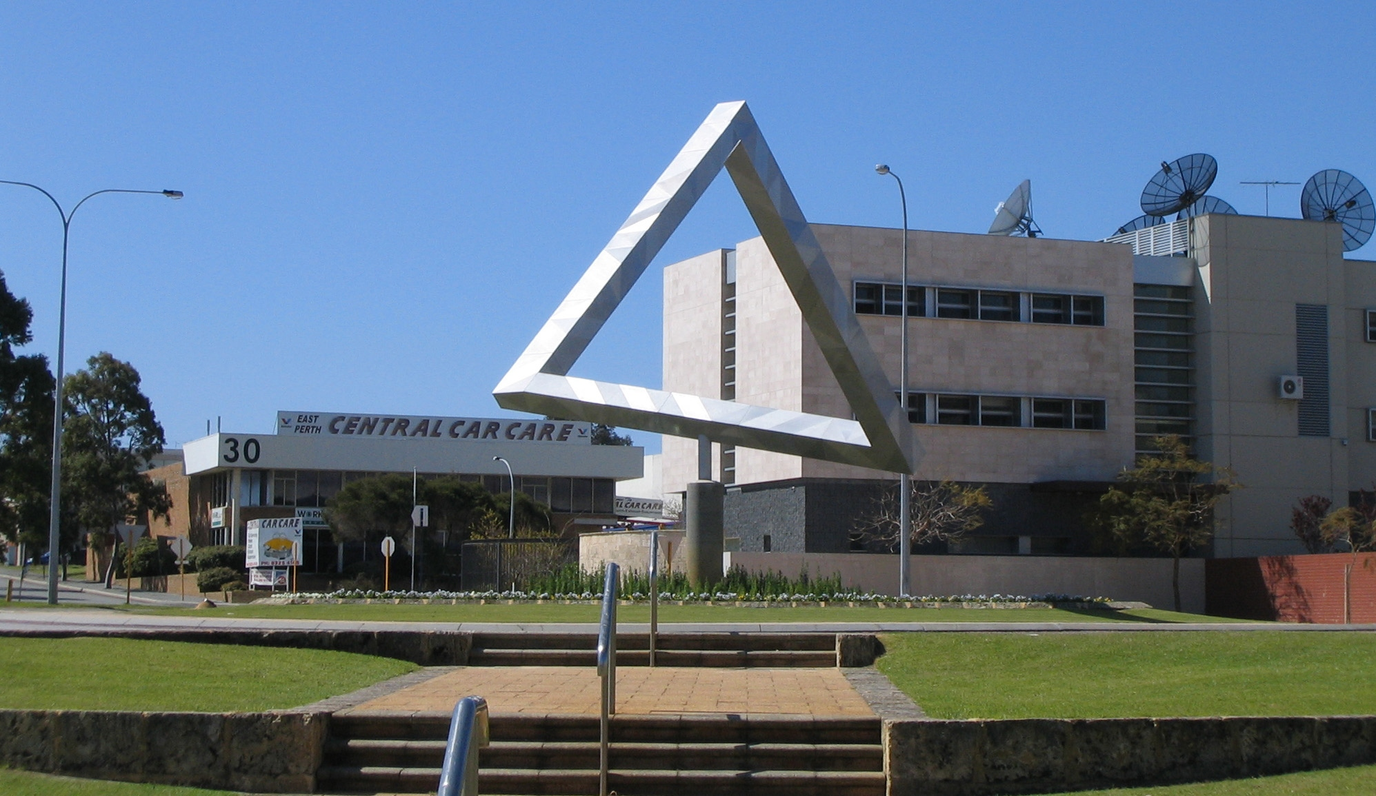 Impossible Triangle sculpture by Brian MacKay & Ahmad Abas, Claisebrook roundabout, East Perth, Western Australia. The structure is actually disjointed, and was photographed from one of the two spots that it was designed to be seen from. Have a look at this image, page 6 of this PDF or Page 23 of this one for images of the triangle shot from street level.